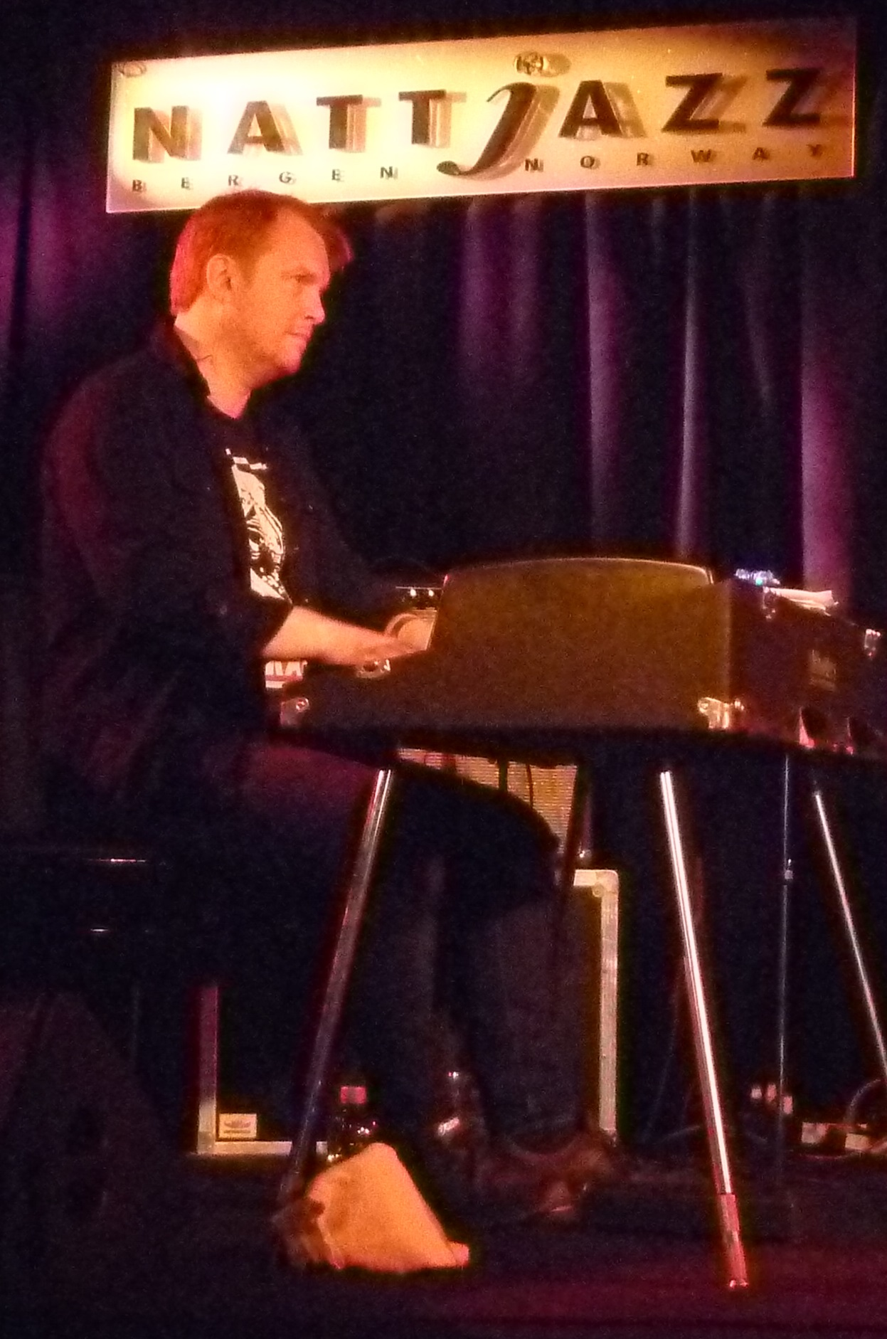 Bernt Moen in Bergen, Norway, with Red Kite at Sardinen, USF Verftet, Nattjazz 2016.